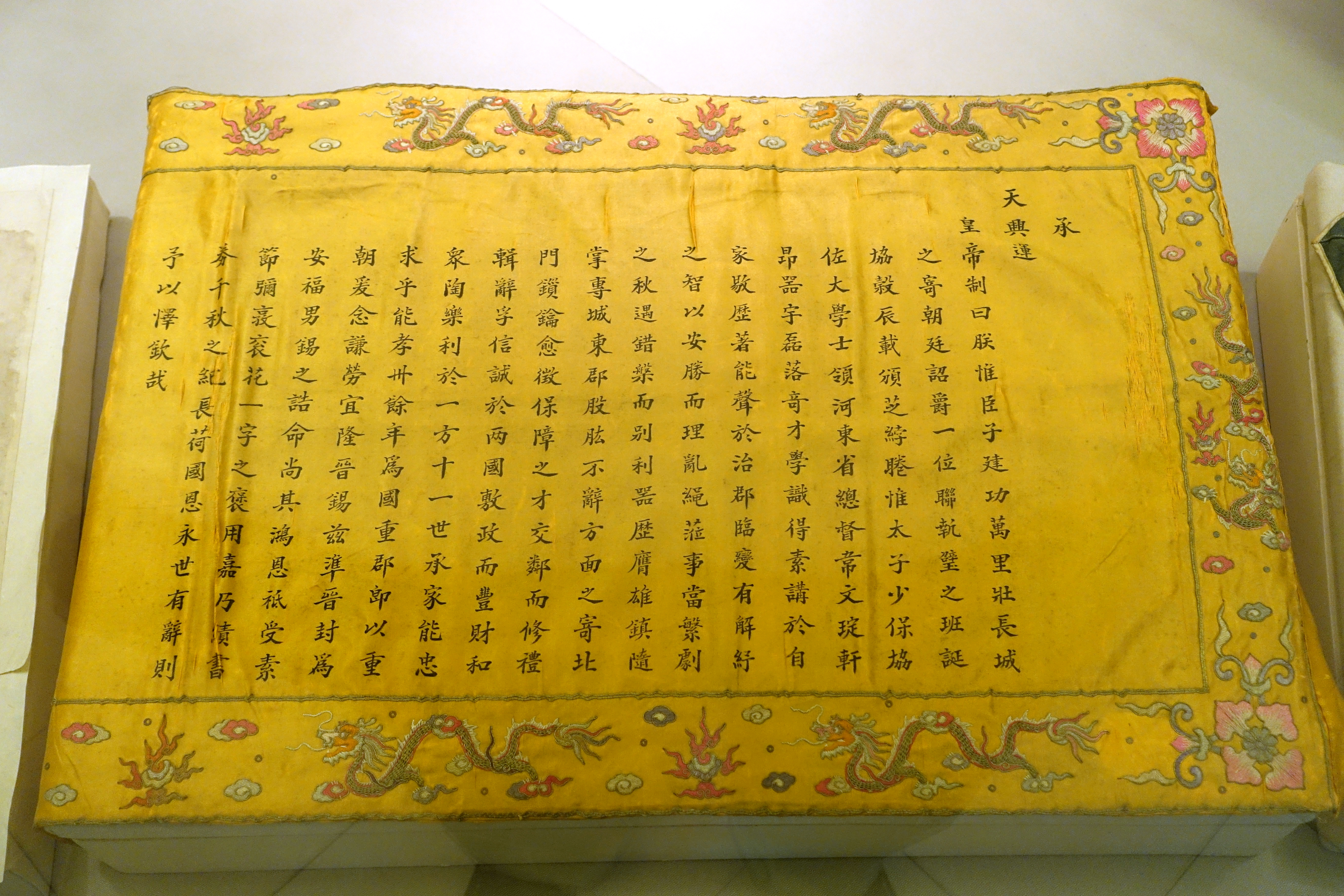 Exhibit in the National Museum of Vietnamese History, Hanoi, Vietnam. This artwork is old enough so that it is in the public domain.